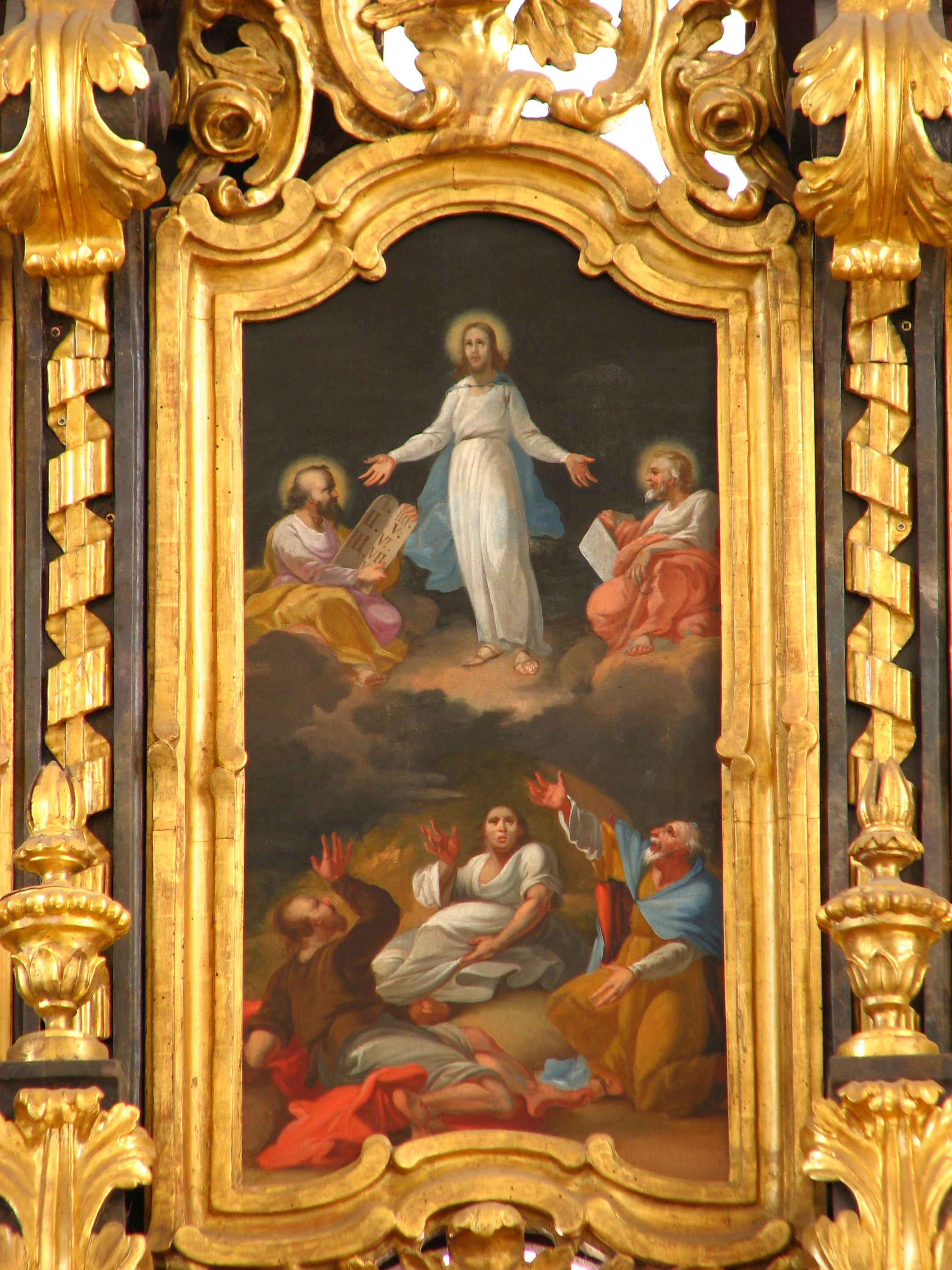 The picture is a Greek Catholic icon depicting the scene of the transfiguration of Christ. On the left side of Jesus there's Moses with his stone tablets and on the right you can see Elijah. On the bottom of the icon there're the three apostles who witnessed the transfiguration (from the left): James the Greater, John and Peter. The icon was painted in the end of the 18th century as part of the iconostasis of the Greek Catholic Cathedral of Hajdúdorog, Hungary. This icon is placed on the first tier of the iconostasis, the so called Great Feasts tier. This icon is the fourth painting from the right.